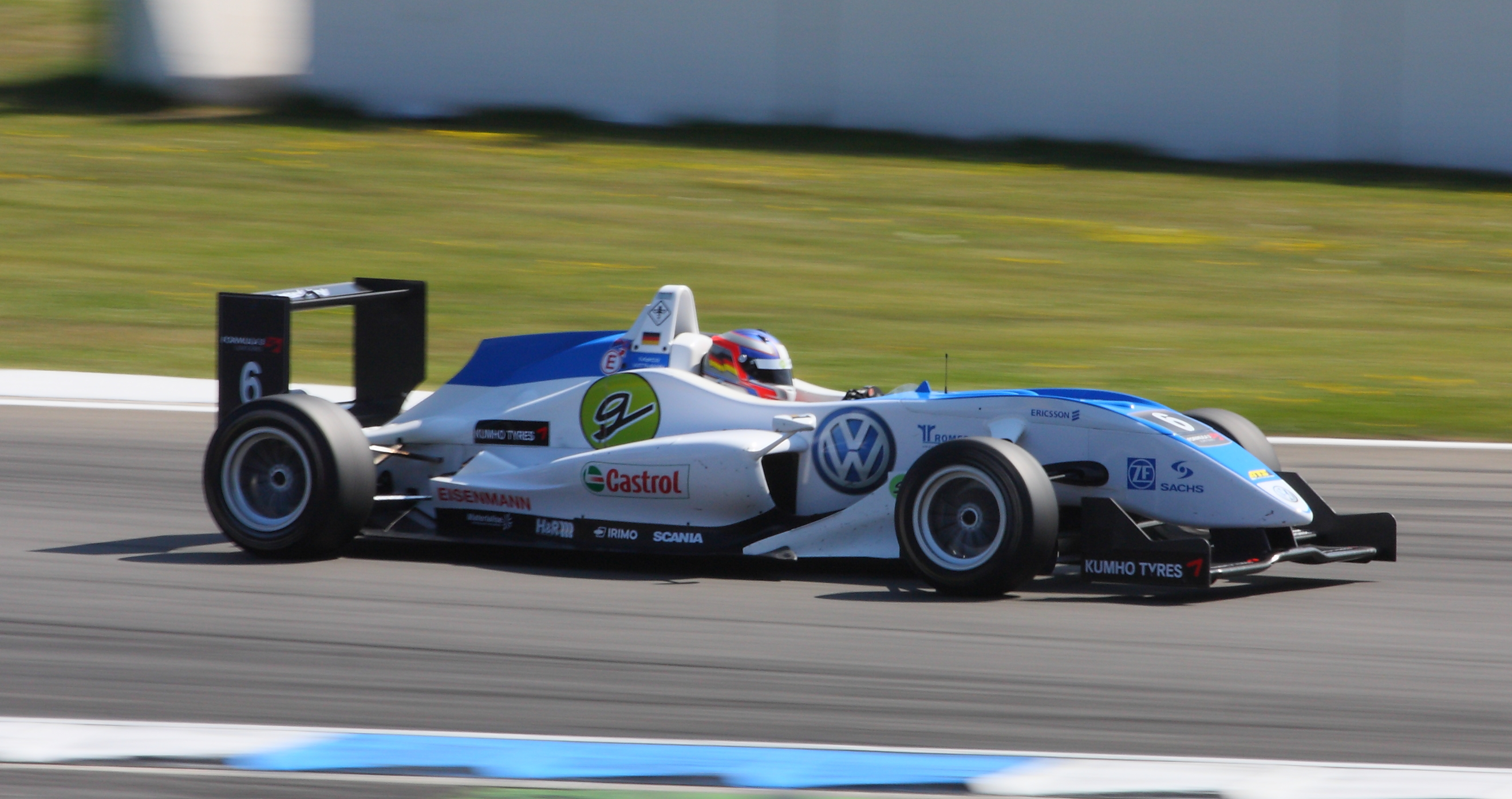 Formula 3 Euroseries, Hockenheimring; Marco Wittmann